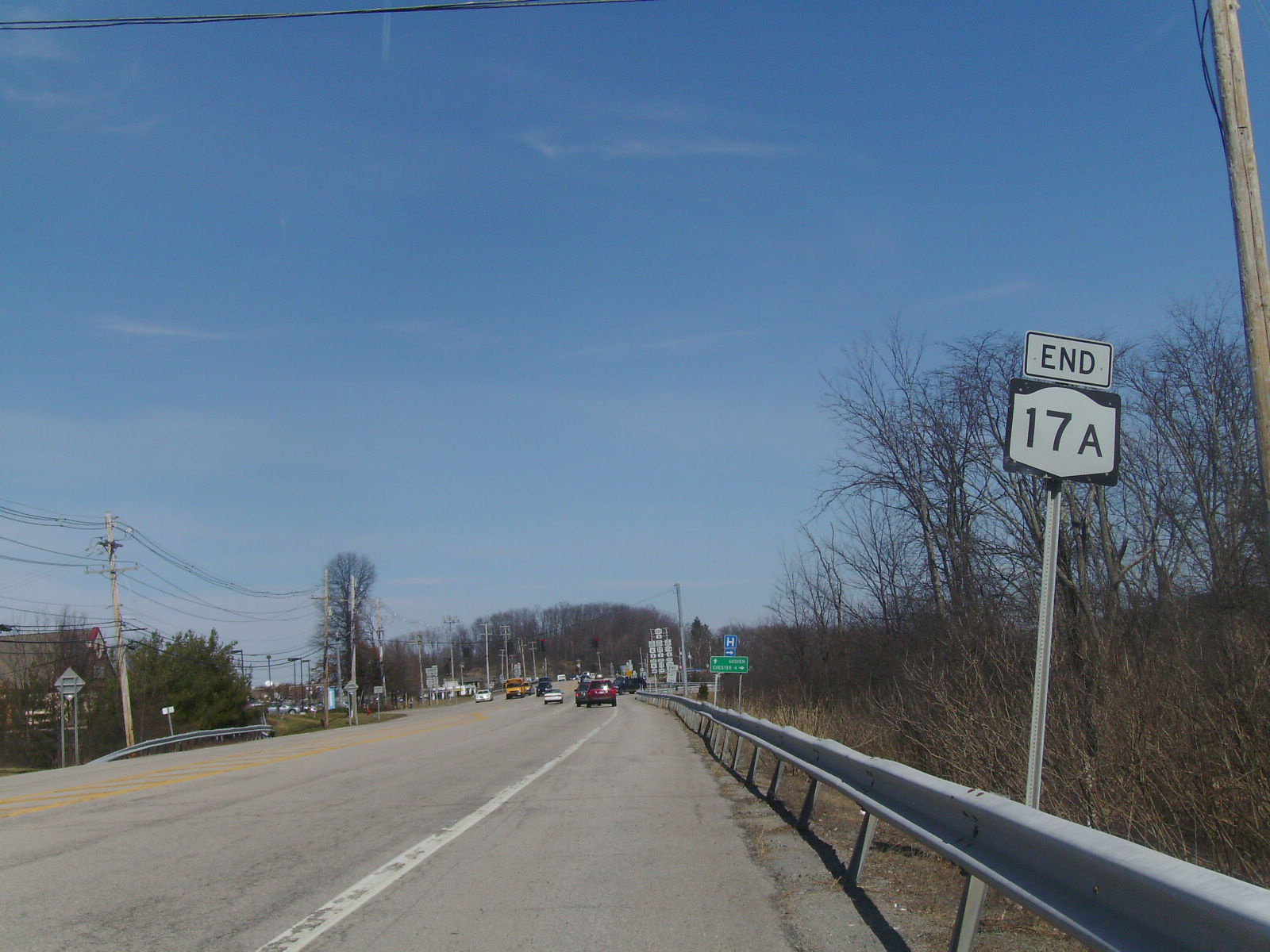 New York State Route 17A westbound approaching its terminus with New York State Routes 207, 17M and 17, along with U.S. Route 6 in Goshen, New York.